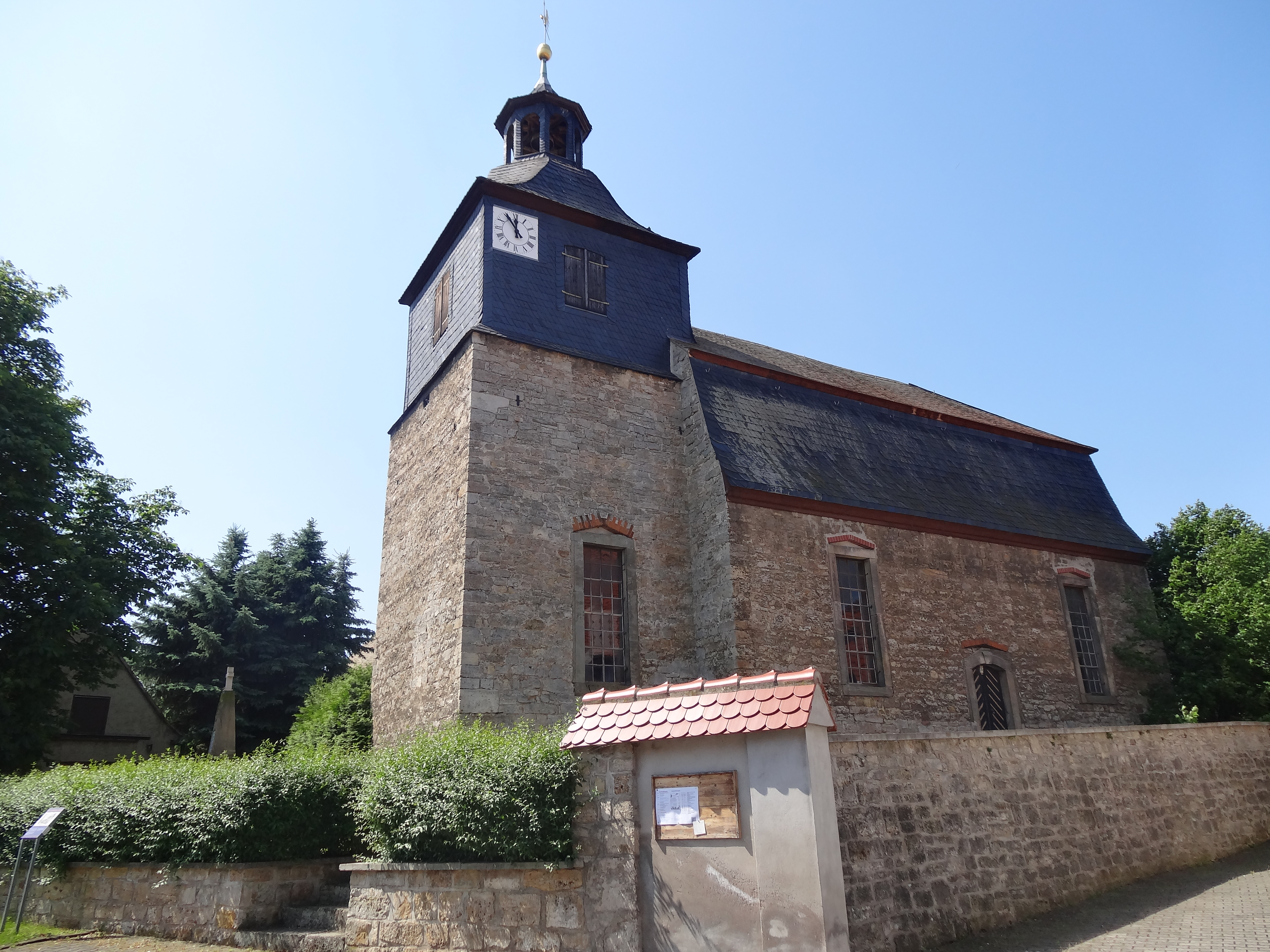 Church in Hammerstedt, Thuringia, Germany